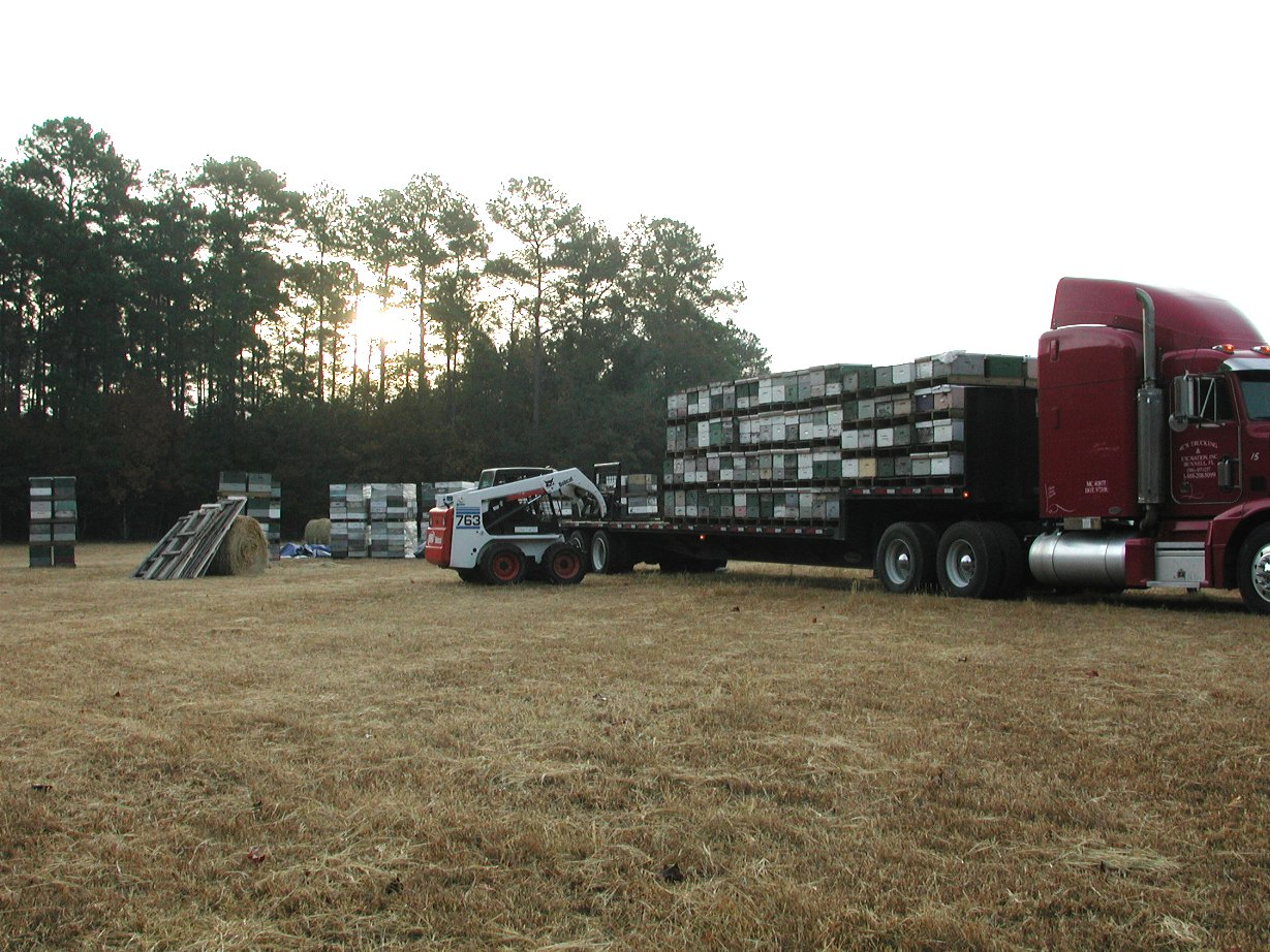 US migratory beekeepers loading tractor-trailer load of bees for transport from South Carolina to Maine to pollinate blueberries.